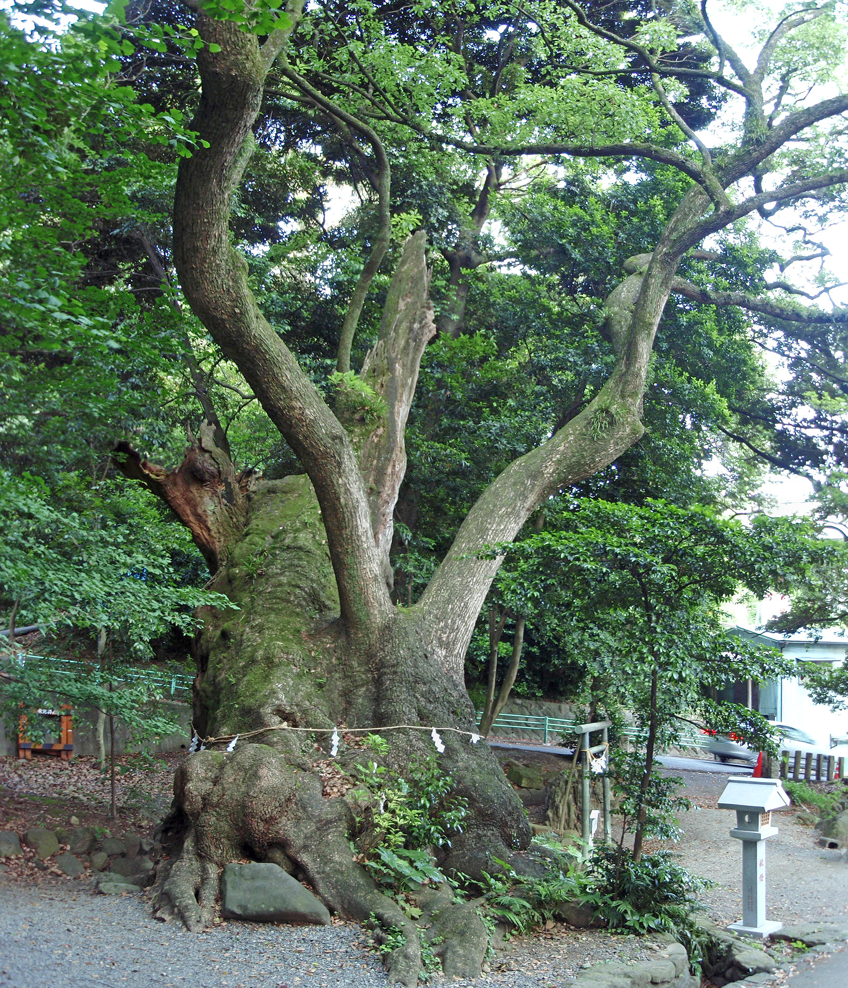 Second Azusawakejinja-no-Okusu (Second Grand Cinnamomum camphora tree of Azusawake Shrine) in Kinomiya-jinja, Atami, Shizuoka Prefecture. Japan.